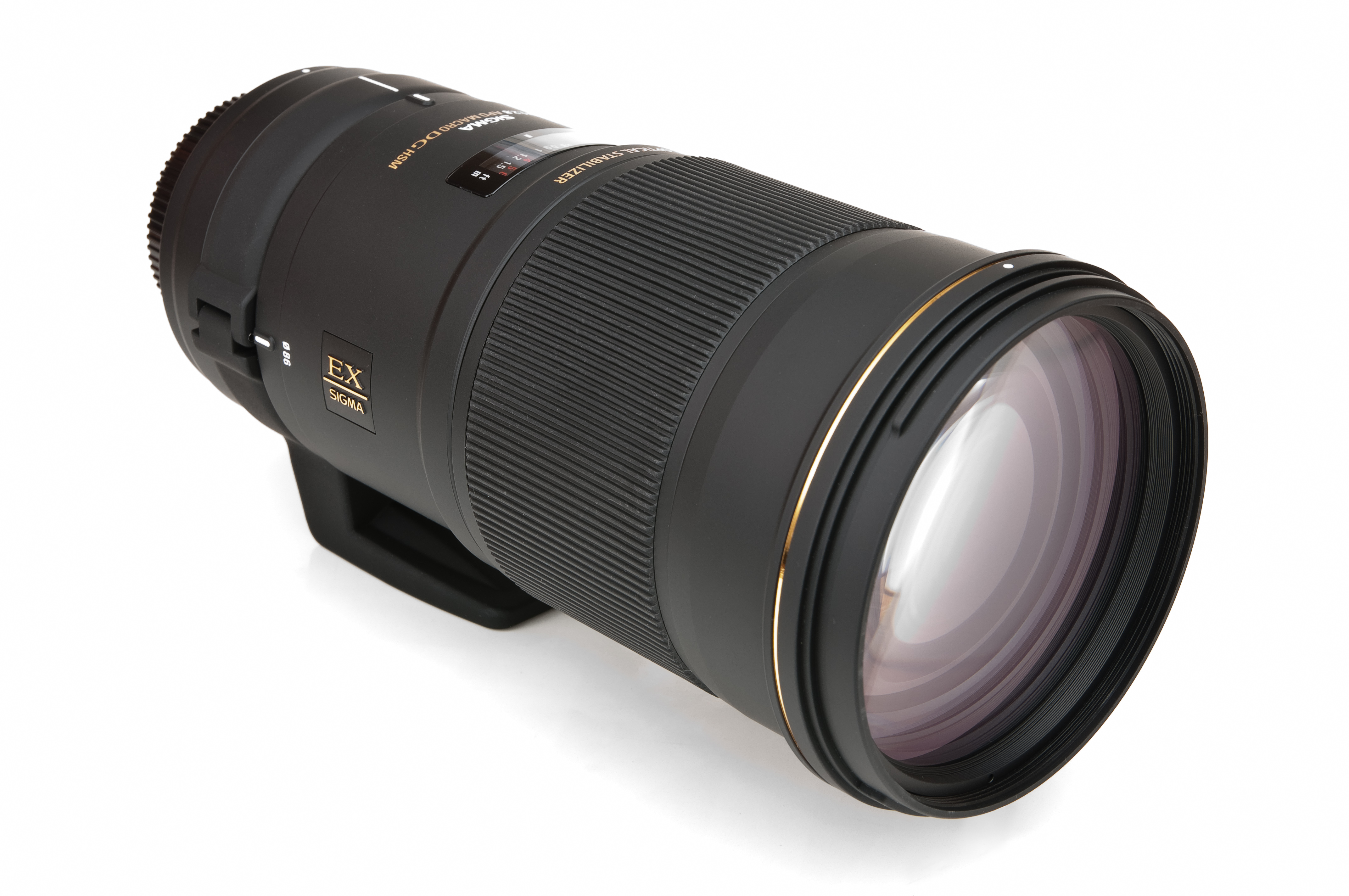 Sigma Macro 180mm F2.8 EX DG OS HSM